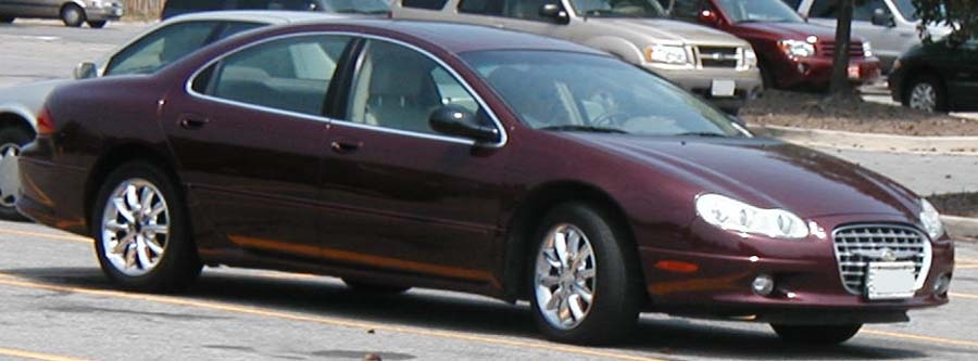 1999-2003 Chrysler LHS/Concorde photographed in USA.